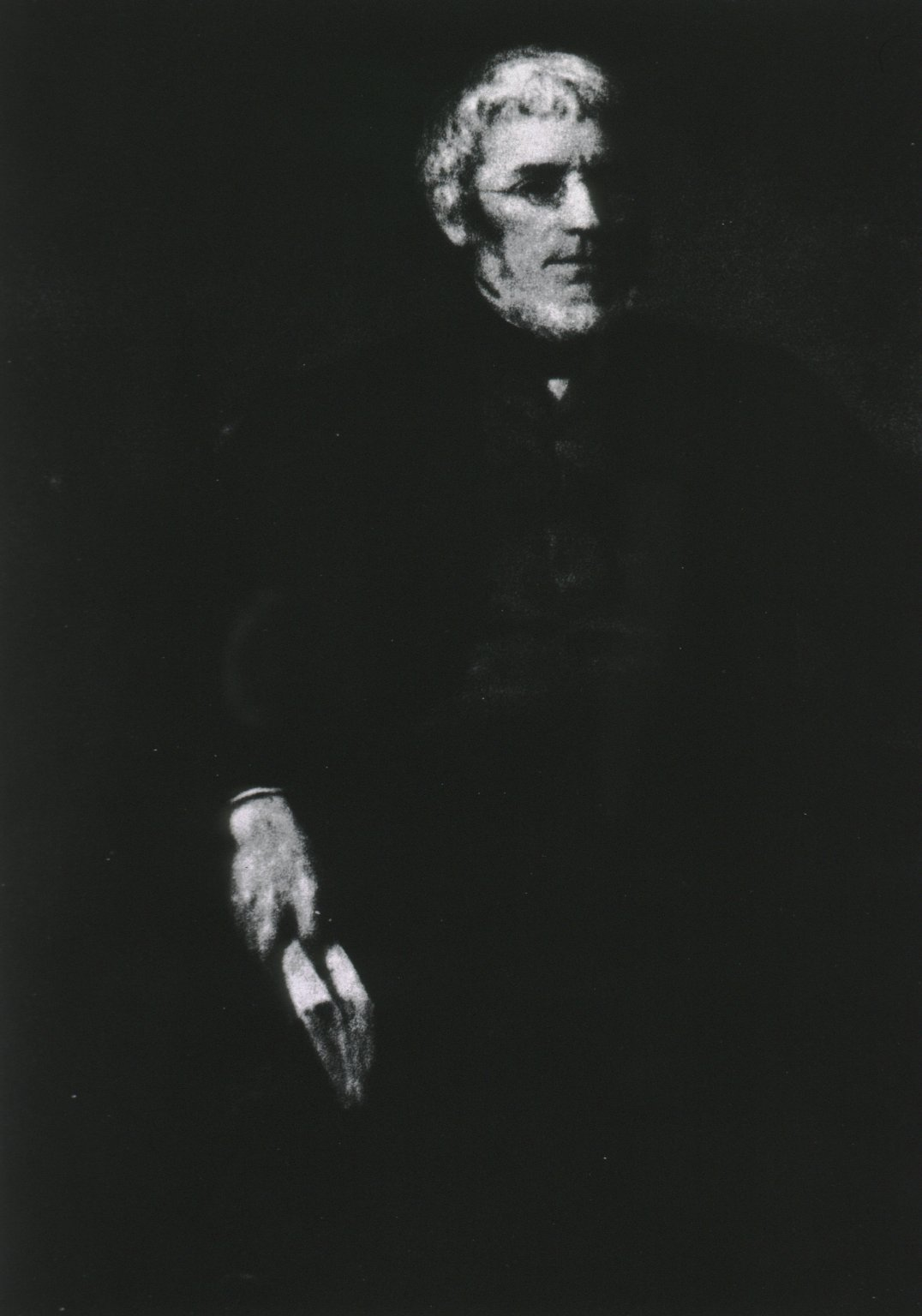 Isaac Ray, American psychiatrist